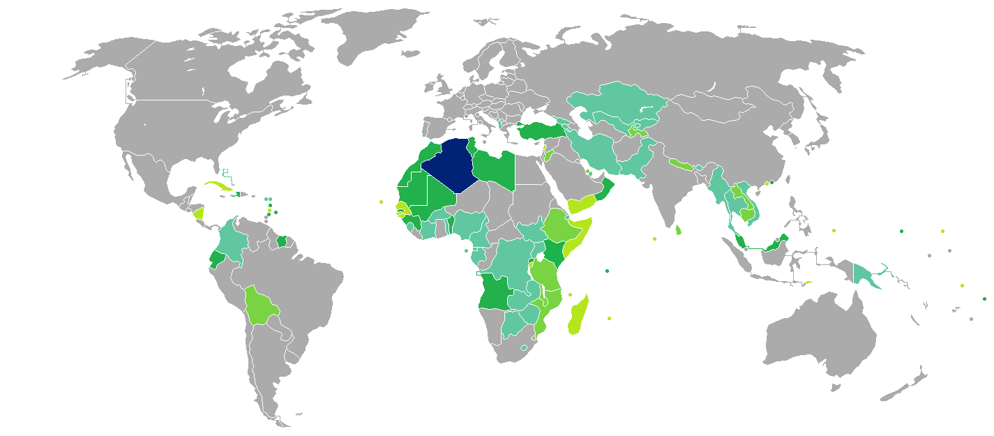 Visa requirements for Algerian citizens Algeria Visa free access Visa on arrival eVisa Visa available both on arrival or online Visa required